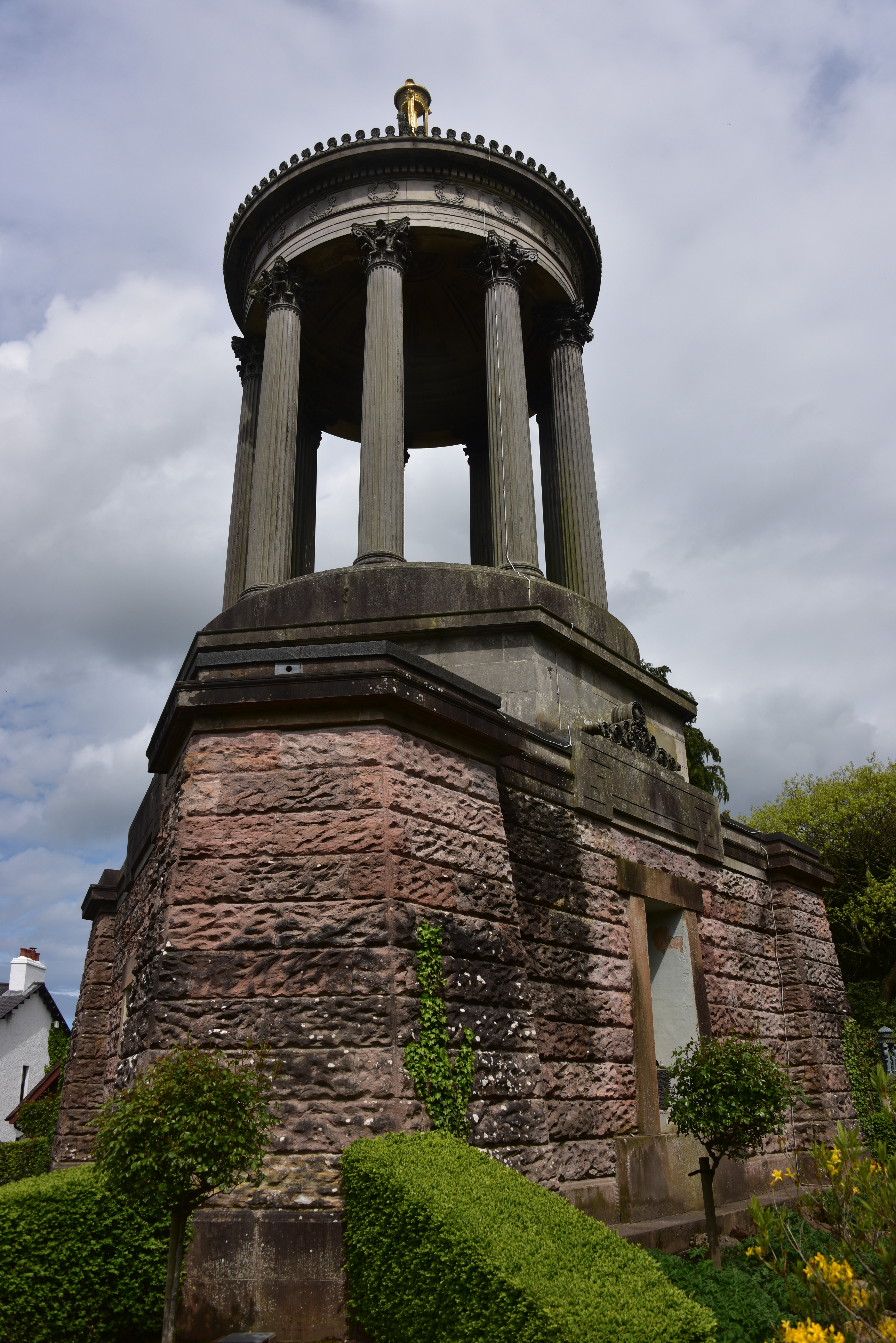 A monument to Robert Burns in his home village of Alloway.